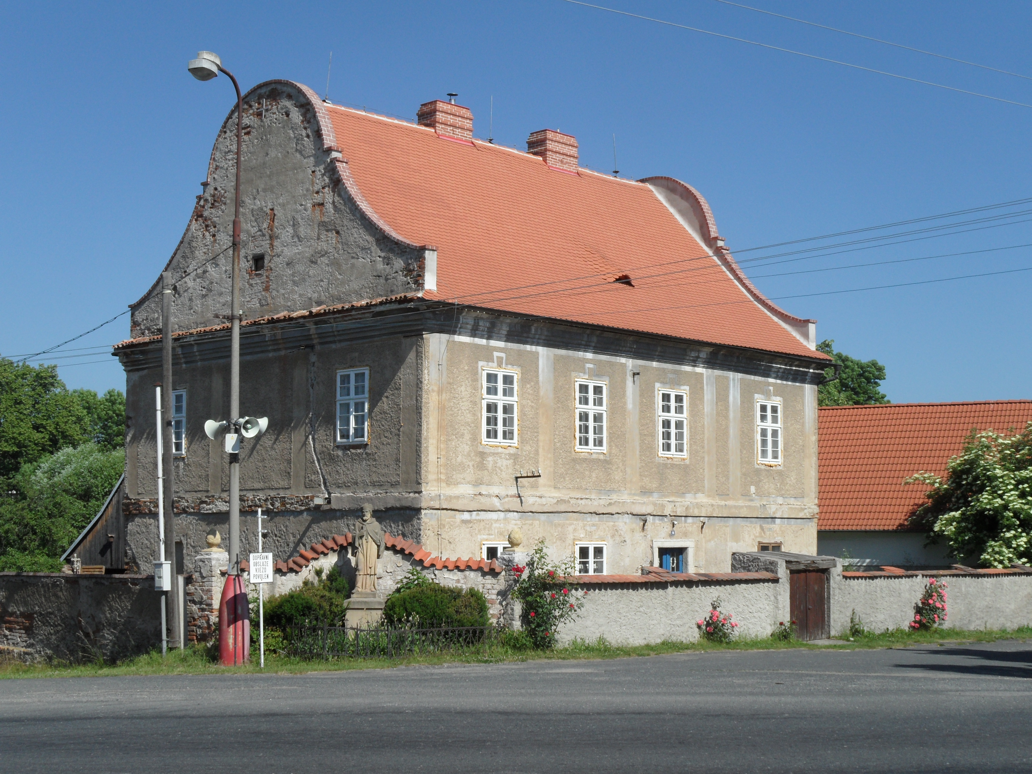 Krchleby A. Rectory: Overview from Bend of Road No. II/339. Kutná Hora District, the Czech Republic.